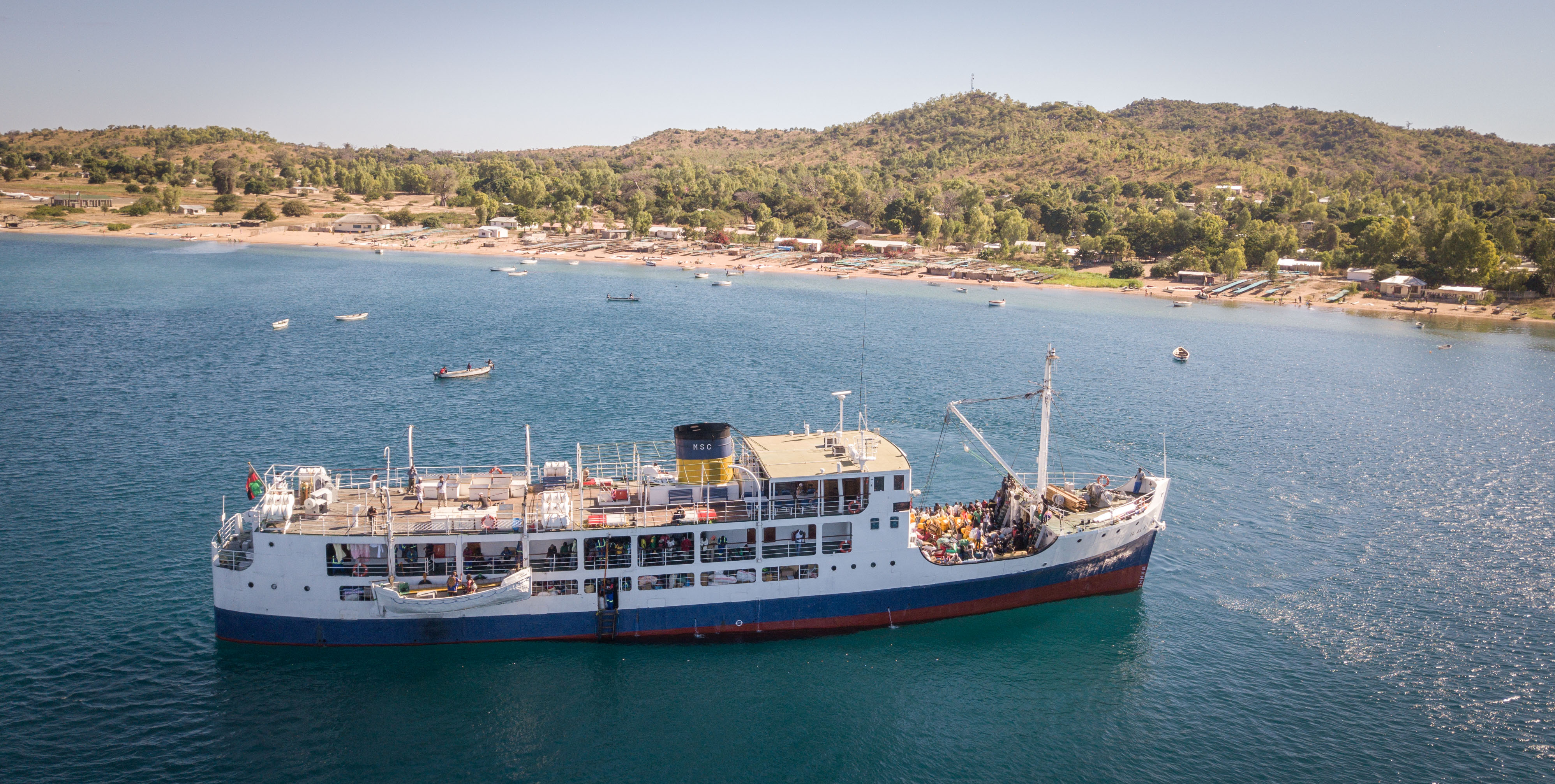 This is an image with the theme "Africa on the Move or Transport" from: Malawi